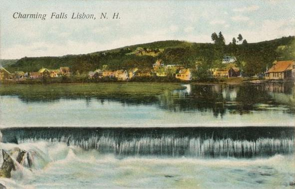 Falls, Lisbon, NH; from a 1906 postcard.